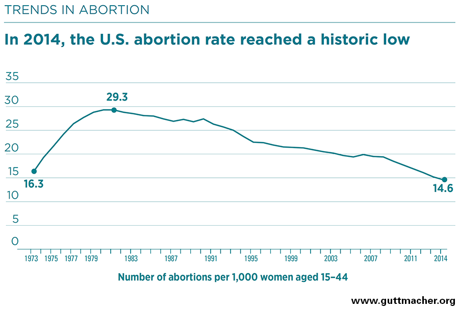 Graph produced by the Guttmacher Institute in report "Induced Abortion in the United States" published January 2018 (